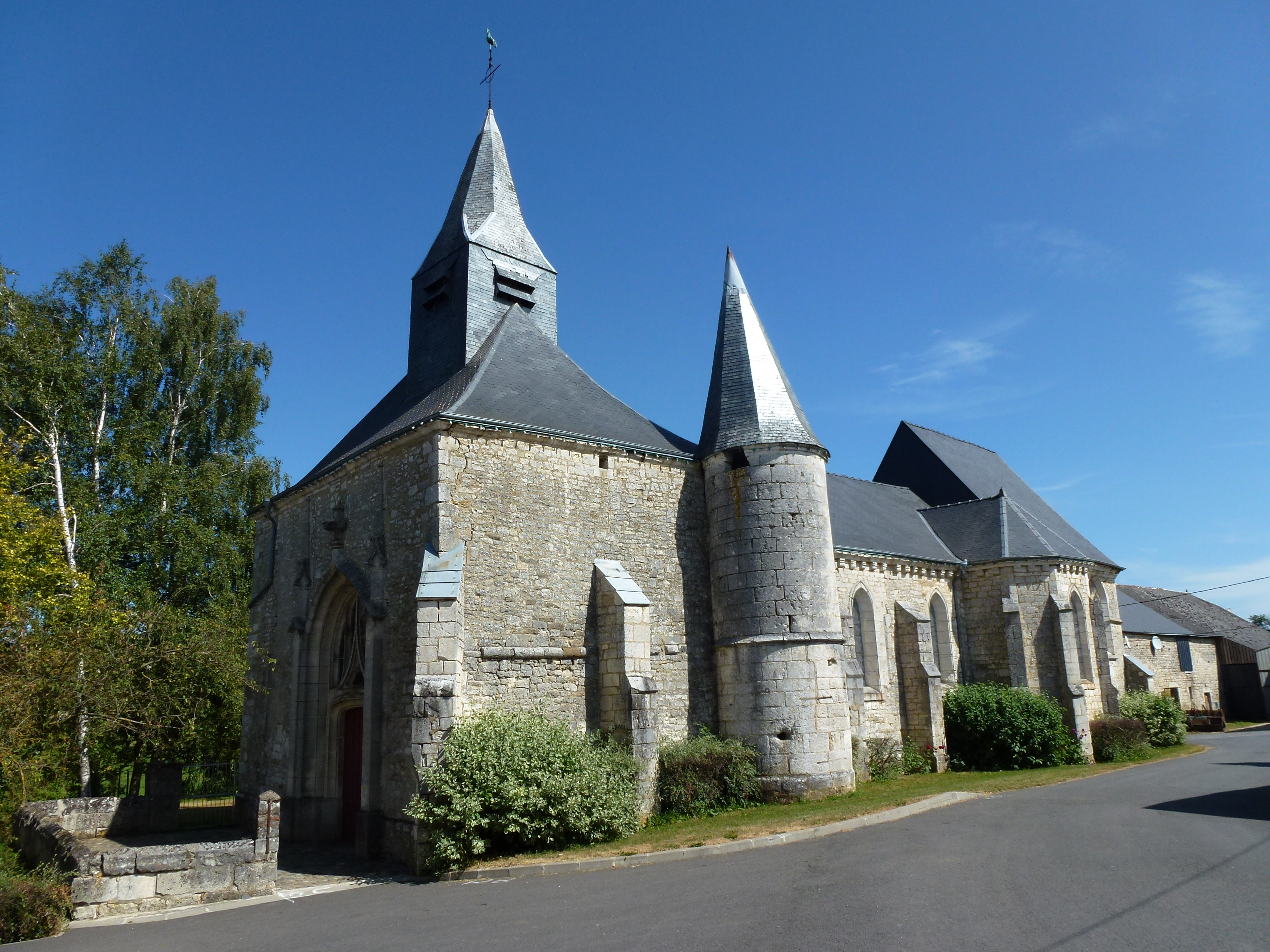 Prez (Ardennes) église, façade